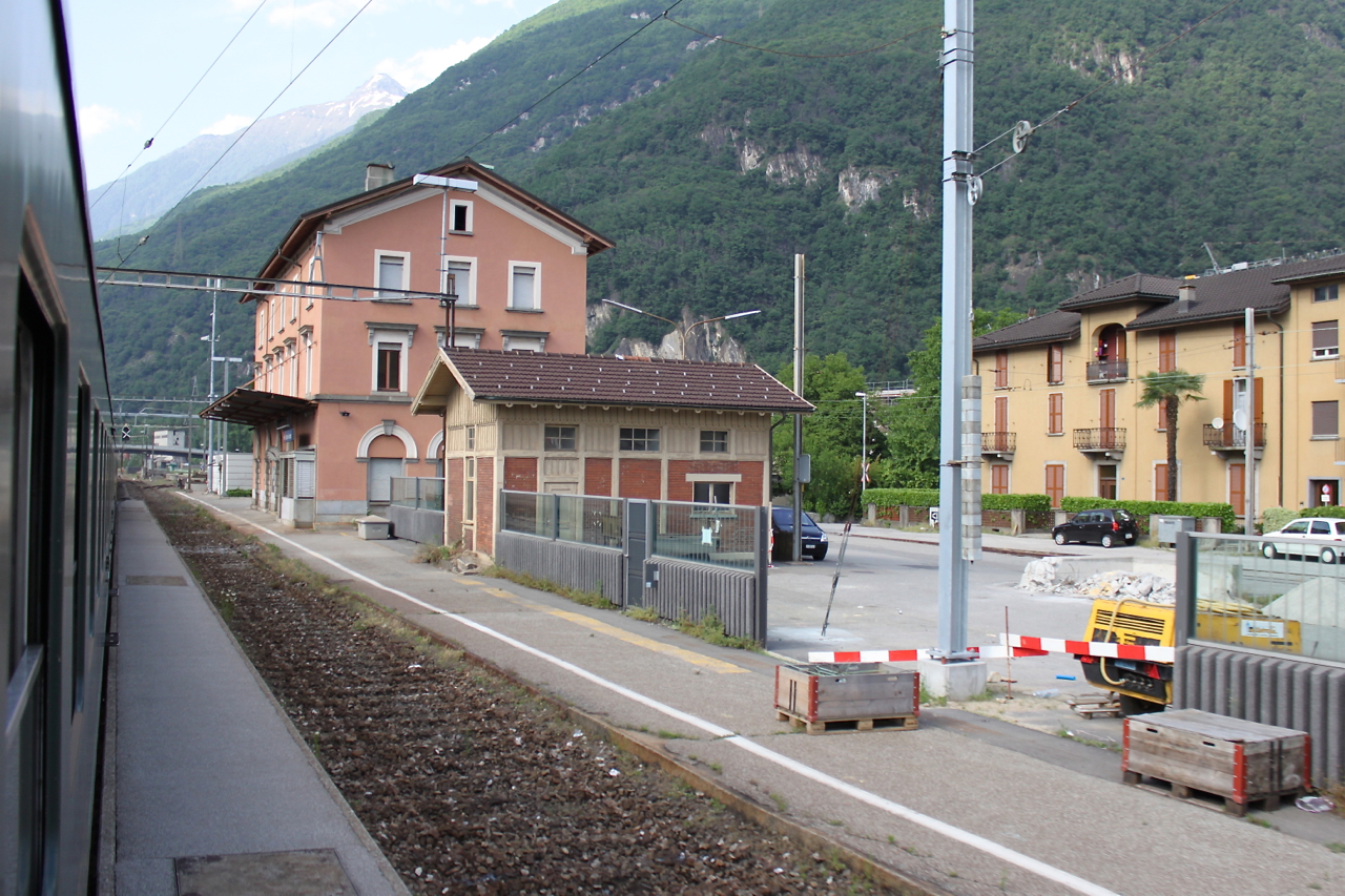 Castione-Arbedo train station.